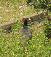 Common pheasant on Atalanti island